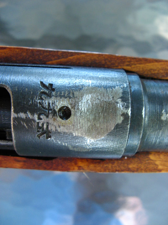 After the war, most all Japanese rifles bearing the Emperial "mum" were de-milled by having these crests ground off. This is a Type 99 Arisaka rifle that was acquired by my grandfather once the war had ended while he was in Japan. The Japanese symbols reading from top to bottom read 99-shiki, signifying this rifle as an Arisaka Type 99.